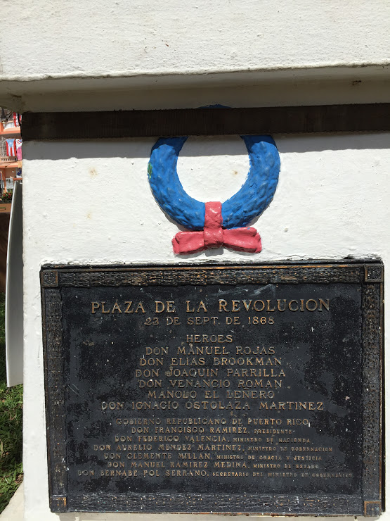 Plaque of the Plaza de la Revolucion in Lares, Puerto Rico